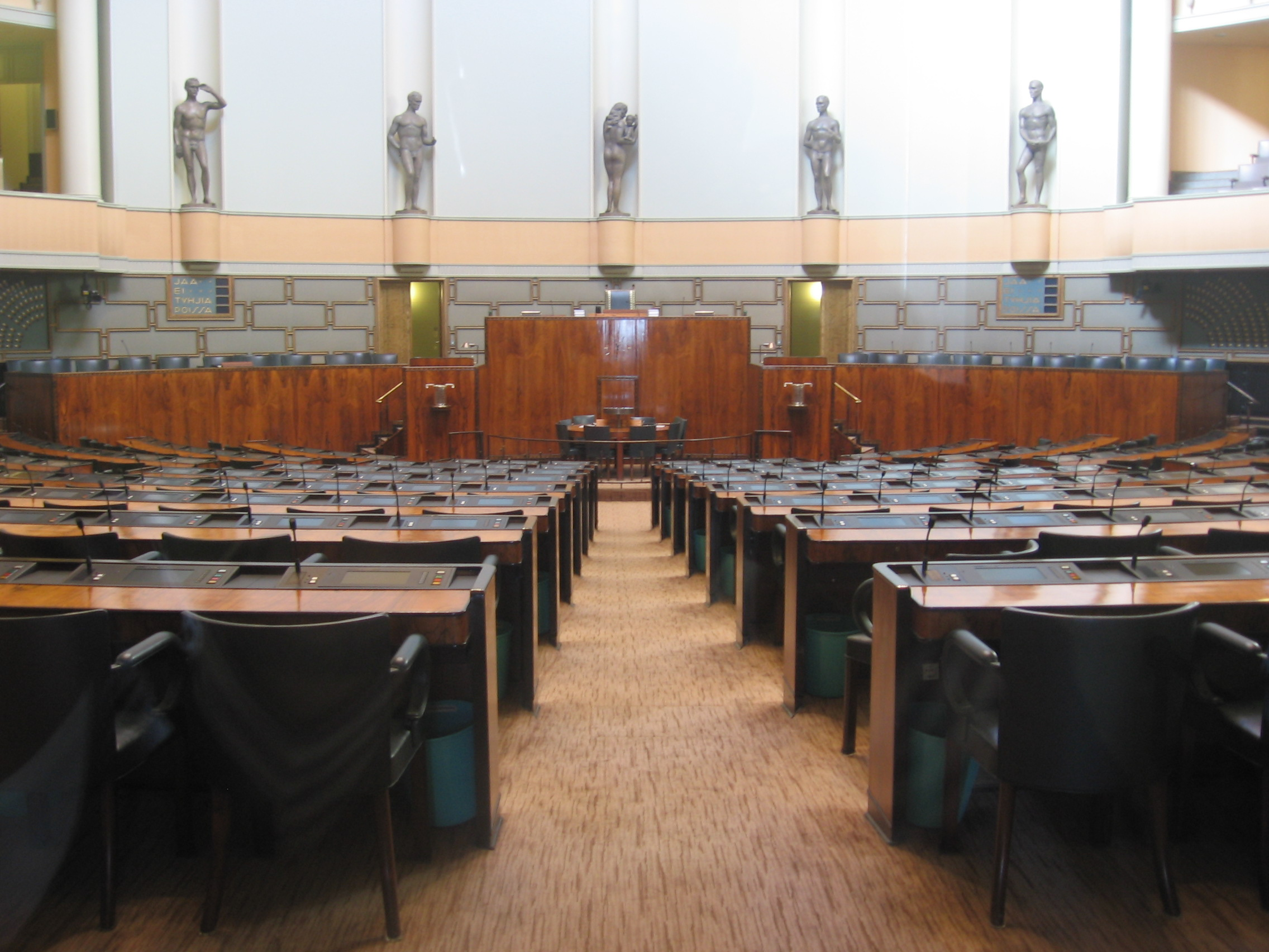 Session Hall of Parliament of Finland